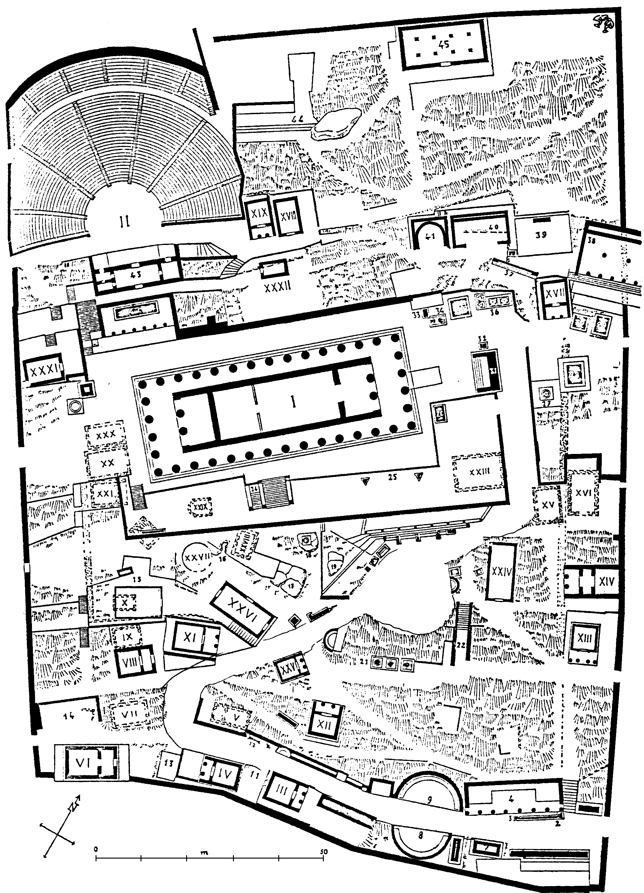 Delphi. Themenos of Apollon in Delphi by P. de la Coste-Messelière, 1936.